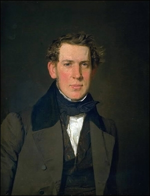 Carl Adolph Feilberg (1810-1896, Danish industrialist